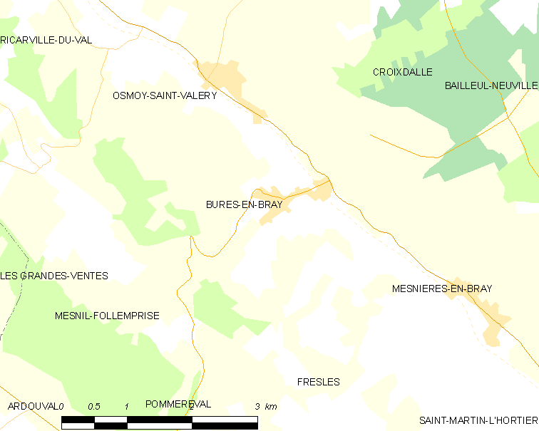 Map of French municipality Bures-en-Bray